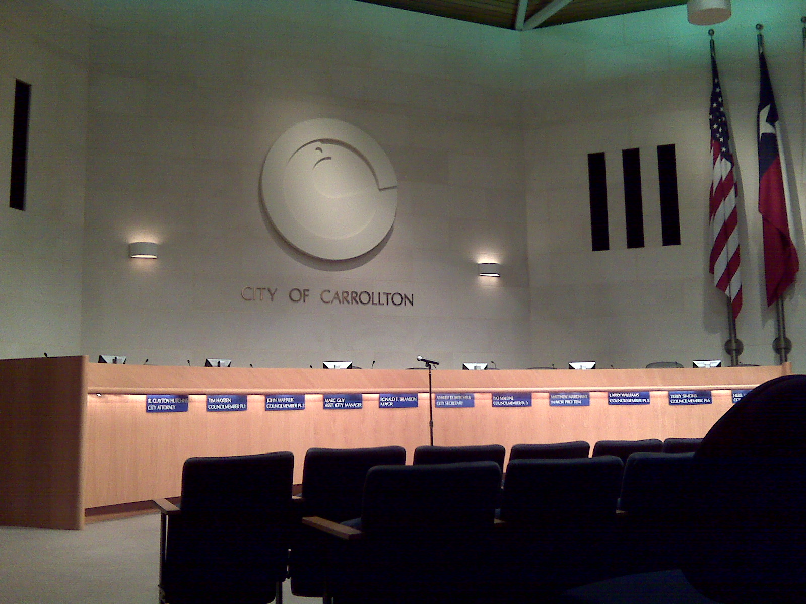 Carrollton City Council Chamber.